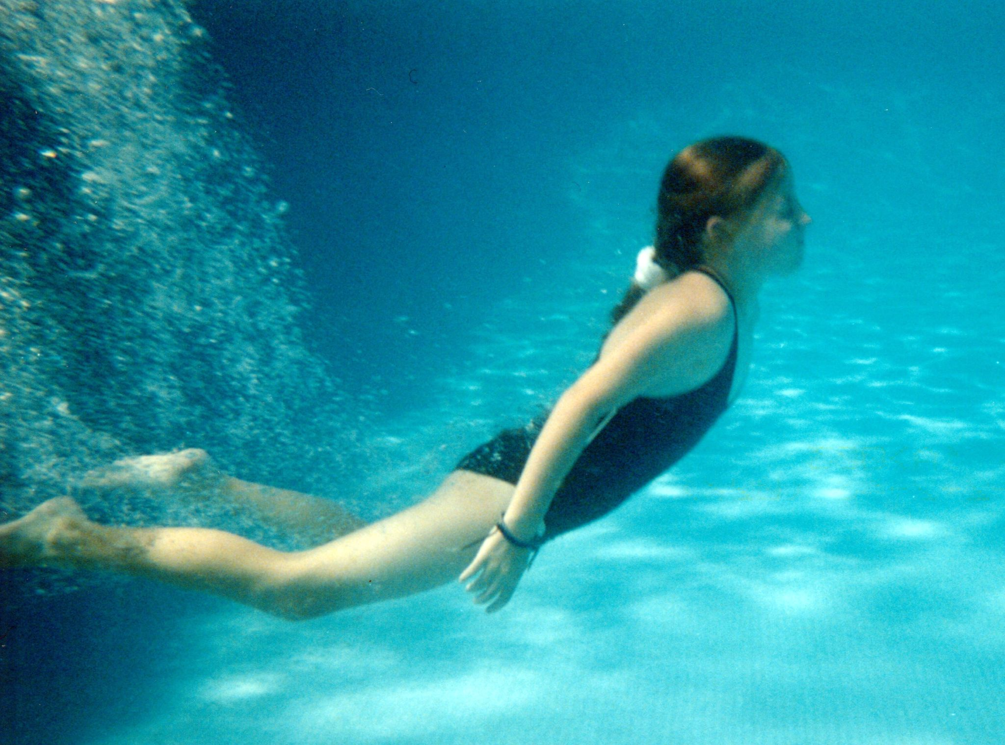 A girl in a swimming pool - underwater. From "The Kids Underwater" set.